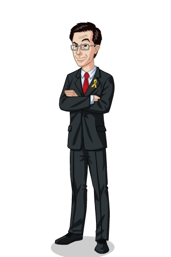 Get your own Stephen Colbert avatar in support of 's "Support Our Troops" campaign. Read more here .